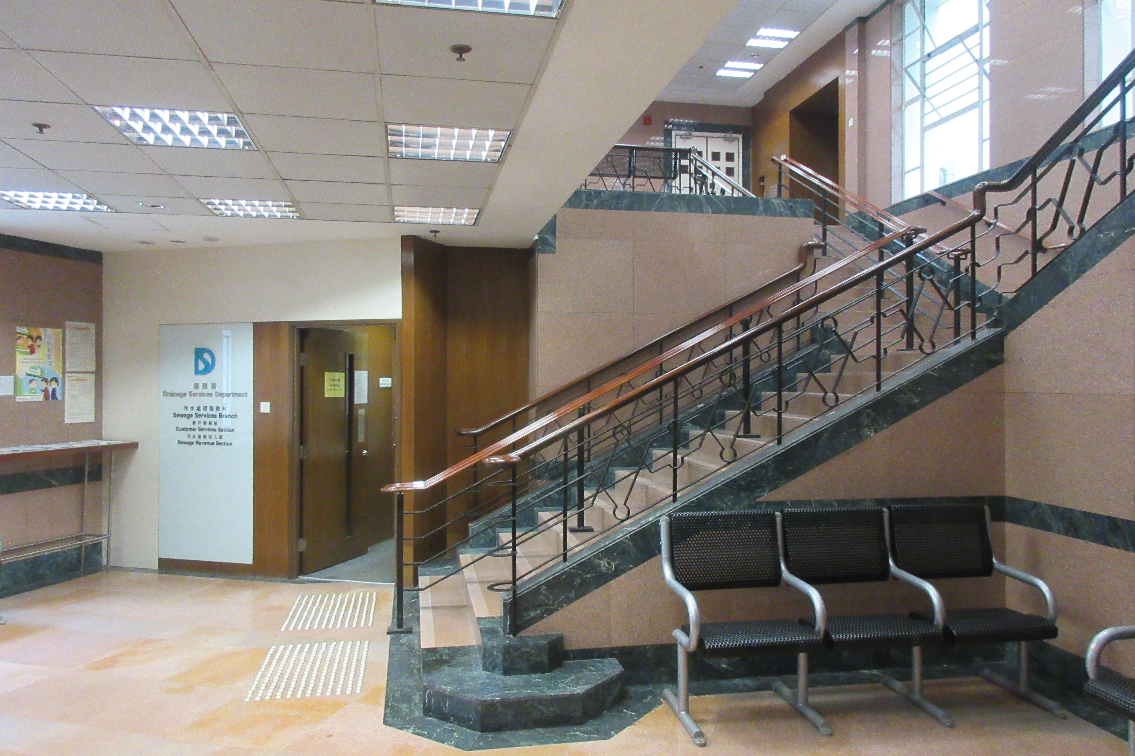 HK 西營盤 Sai Ying Pun 皇后大道西 2A Queen's Road West 西區裁判法院 Western Magistracy in January 2019